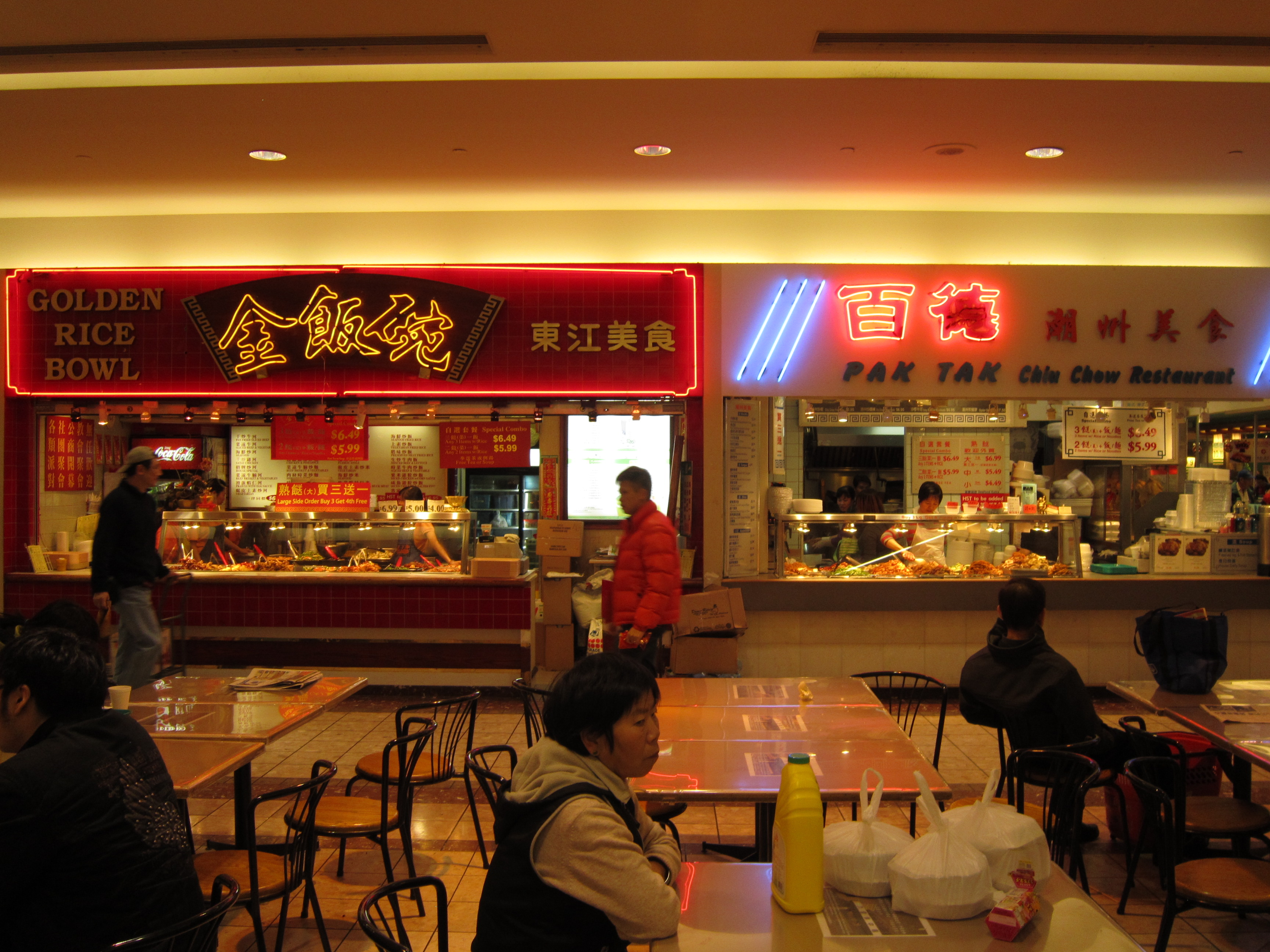 The Asian food court inside Yaohan Centre, Richmond.